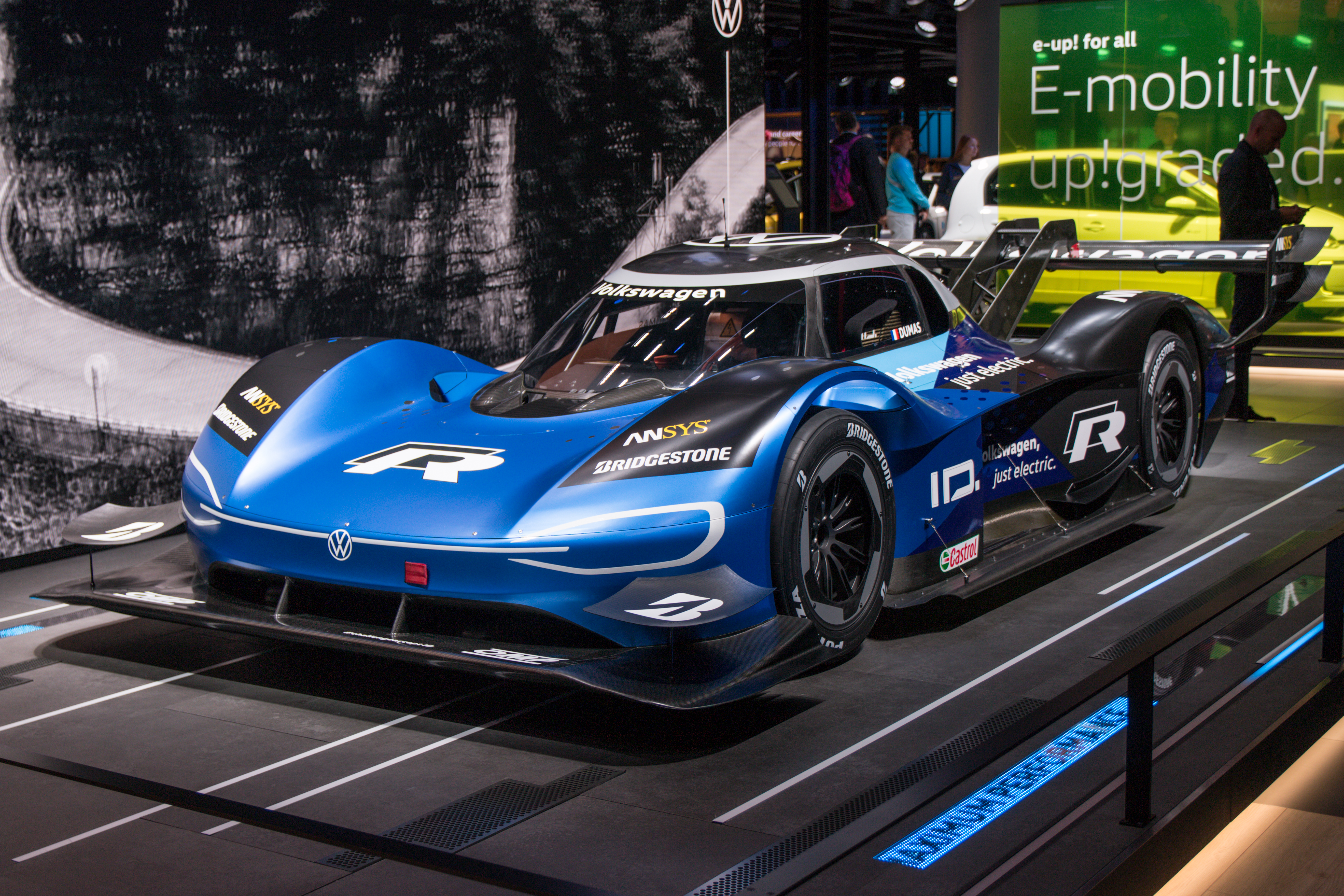 VW ID.R